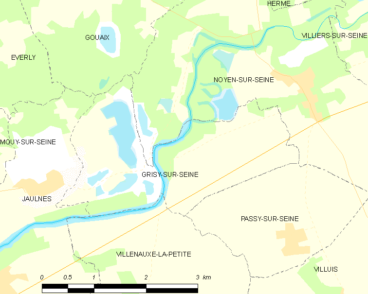 Map of French municipality Grisy-sur-Seine